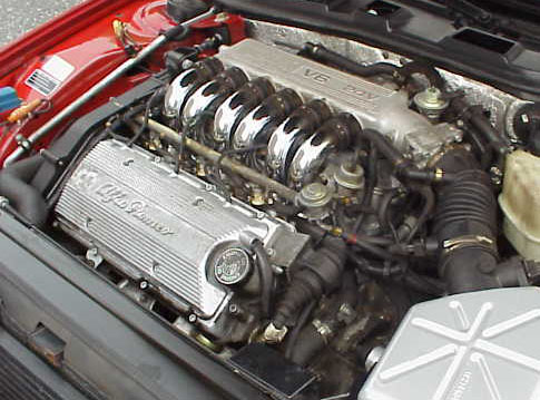 Description: Alfa164 DOHC24V Engine(Q4) Source: Toshi_156 Auther: Toshi_156